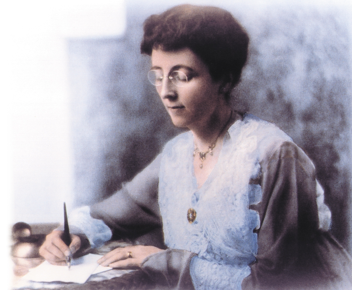 LMM photo